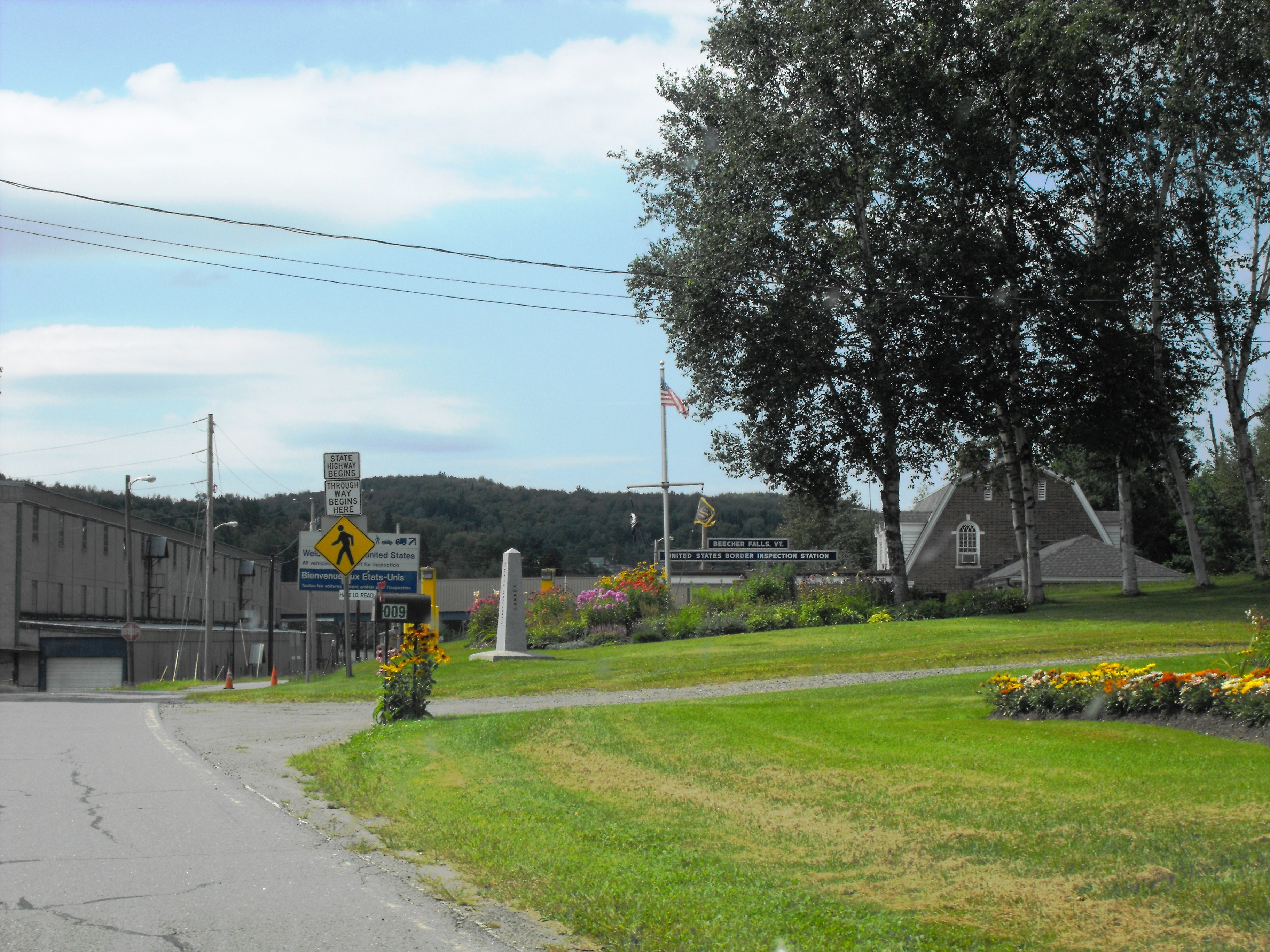 View of the US - Canada border at Beecher Falls, VT looking south